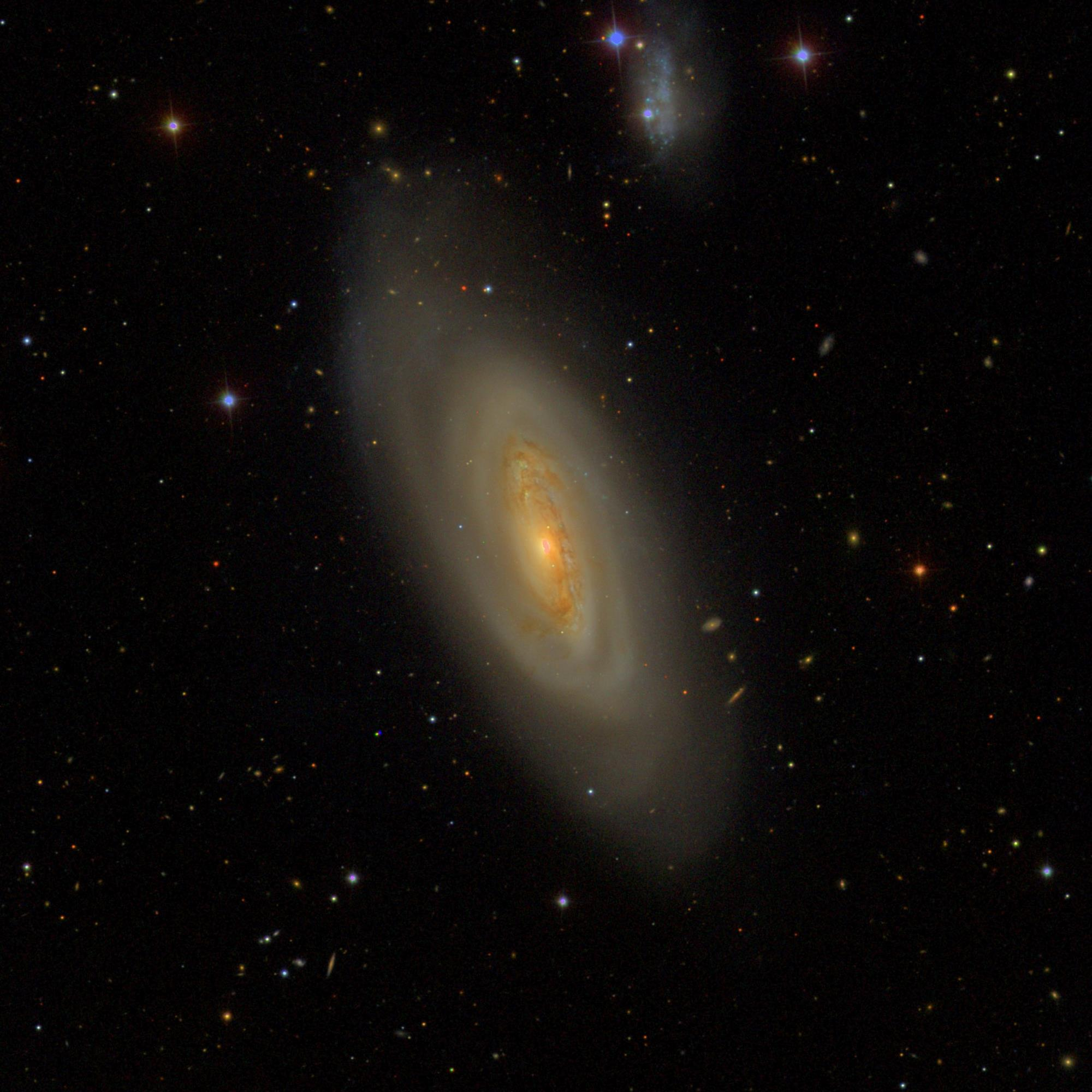 Angle of view: 14' x 14' (0.42" per pixel), north is up.